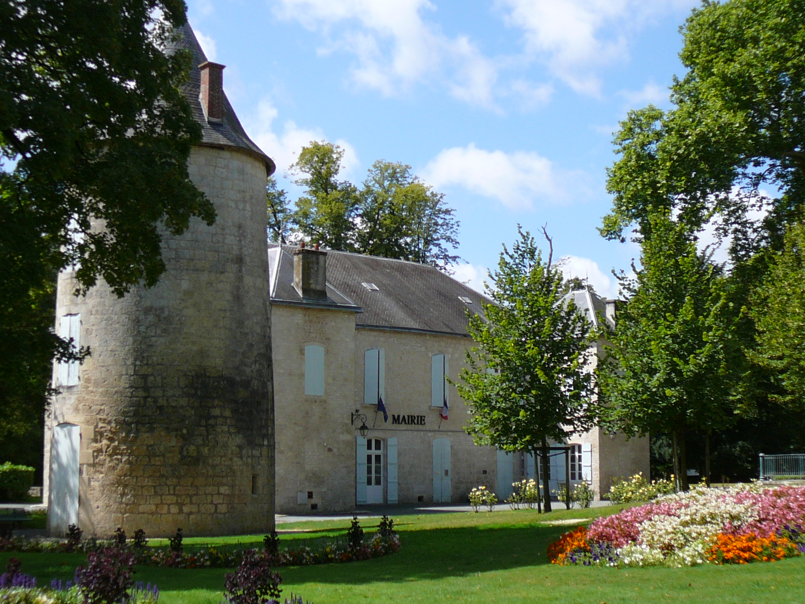 Castle in Surgères. Town hall. Charente-Maritime (17), Poitou-Charentes, France, Europe.